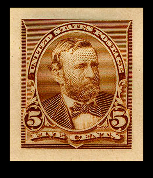 Postage stamp die proof: Grant, 1890, 5c